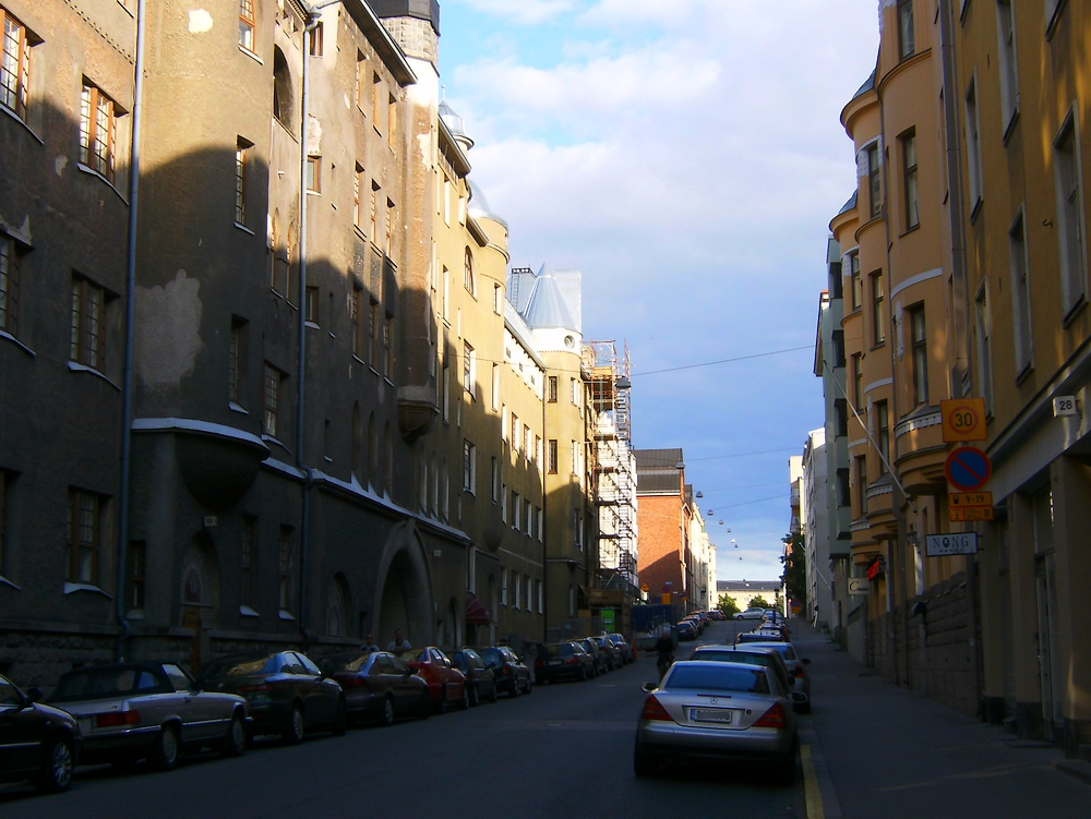 Albertinkatu, Helsinki, Punavuori, Finland